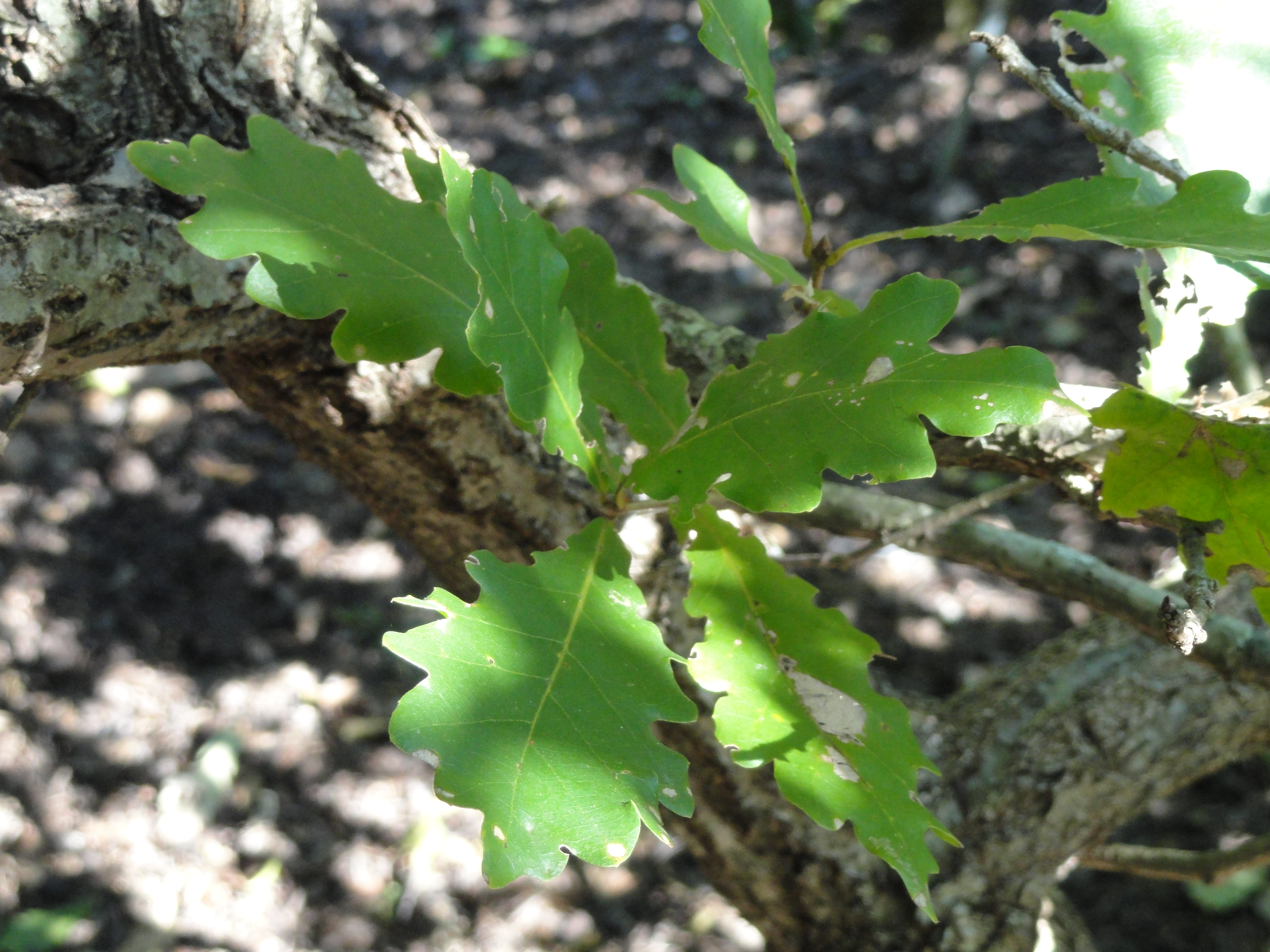 Quercus wutaishanica specimen in the J. C. Raulston Arboretum (North Carolina State University), 4415 Beryl Road, Raleigh, North Carolina, USA.